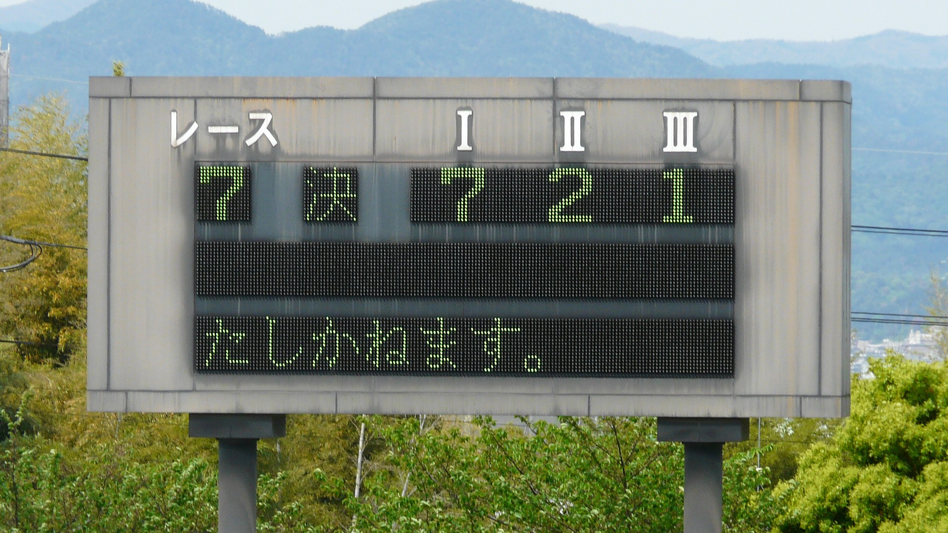 Mukomachi-keirin-4